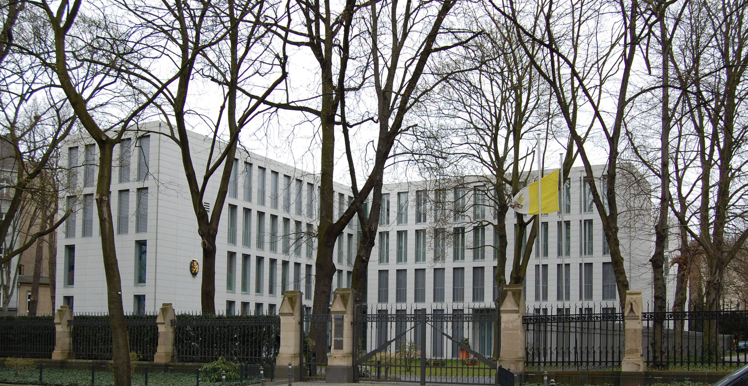 Apostolic nunciature (Embassy of Vatican) in Berlin